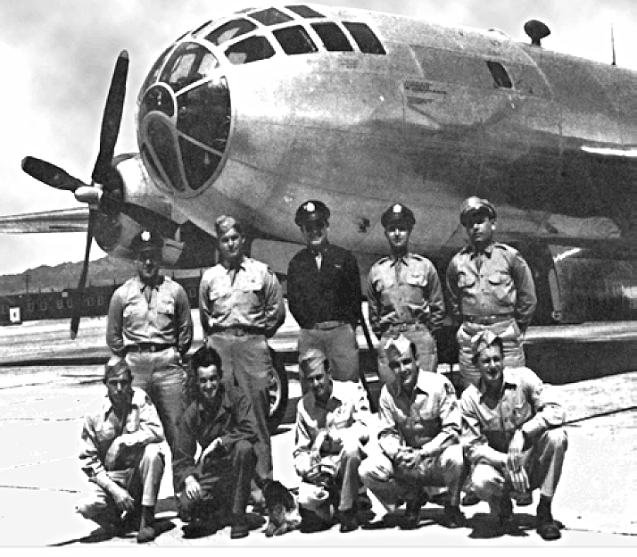 Enlisted flight crew of the Bock's Car.